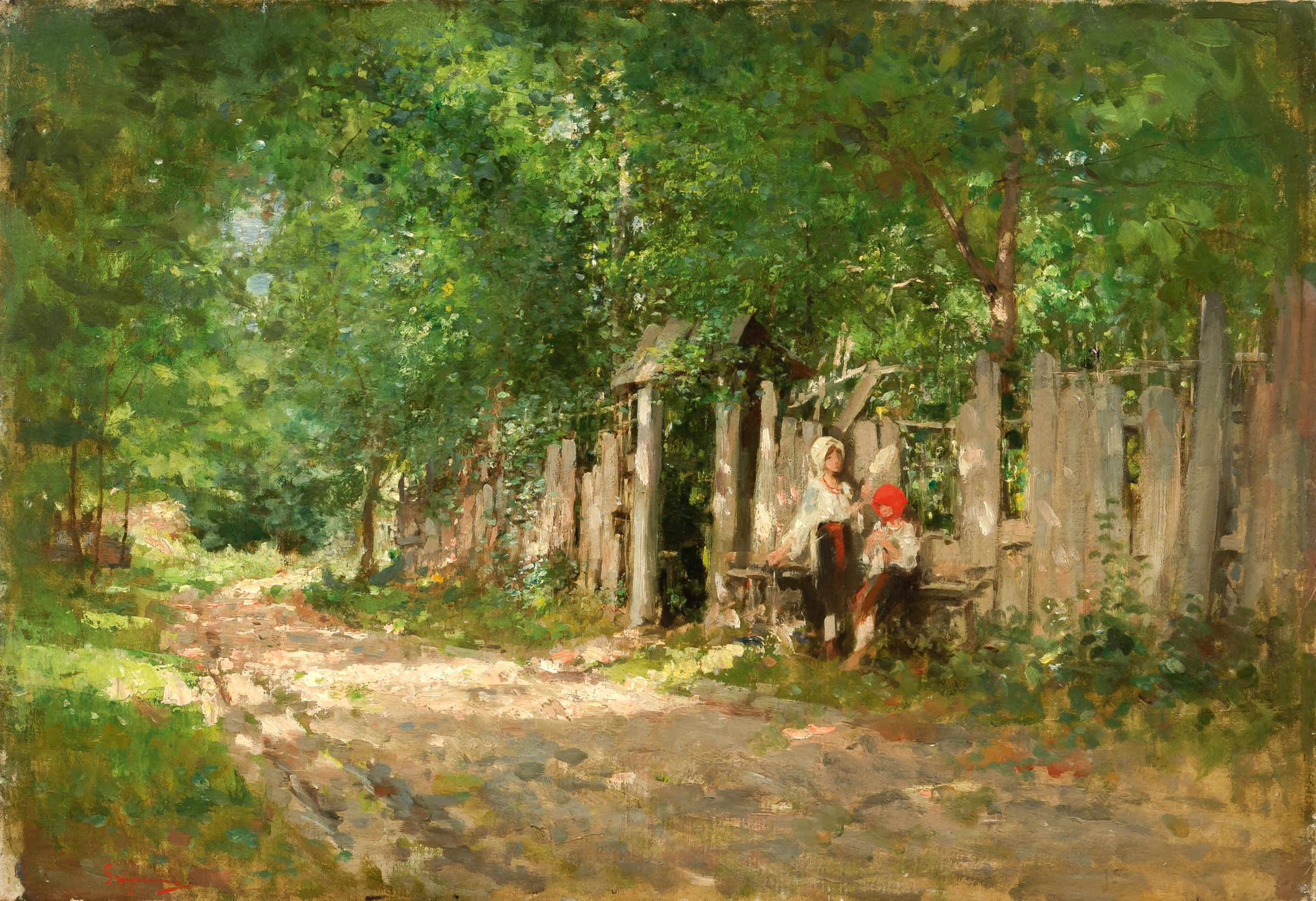 Girls Spinning at the GateRomână: Fete lucrând la poartă